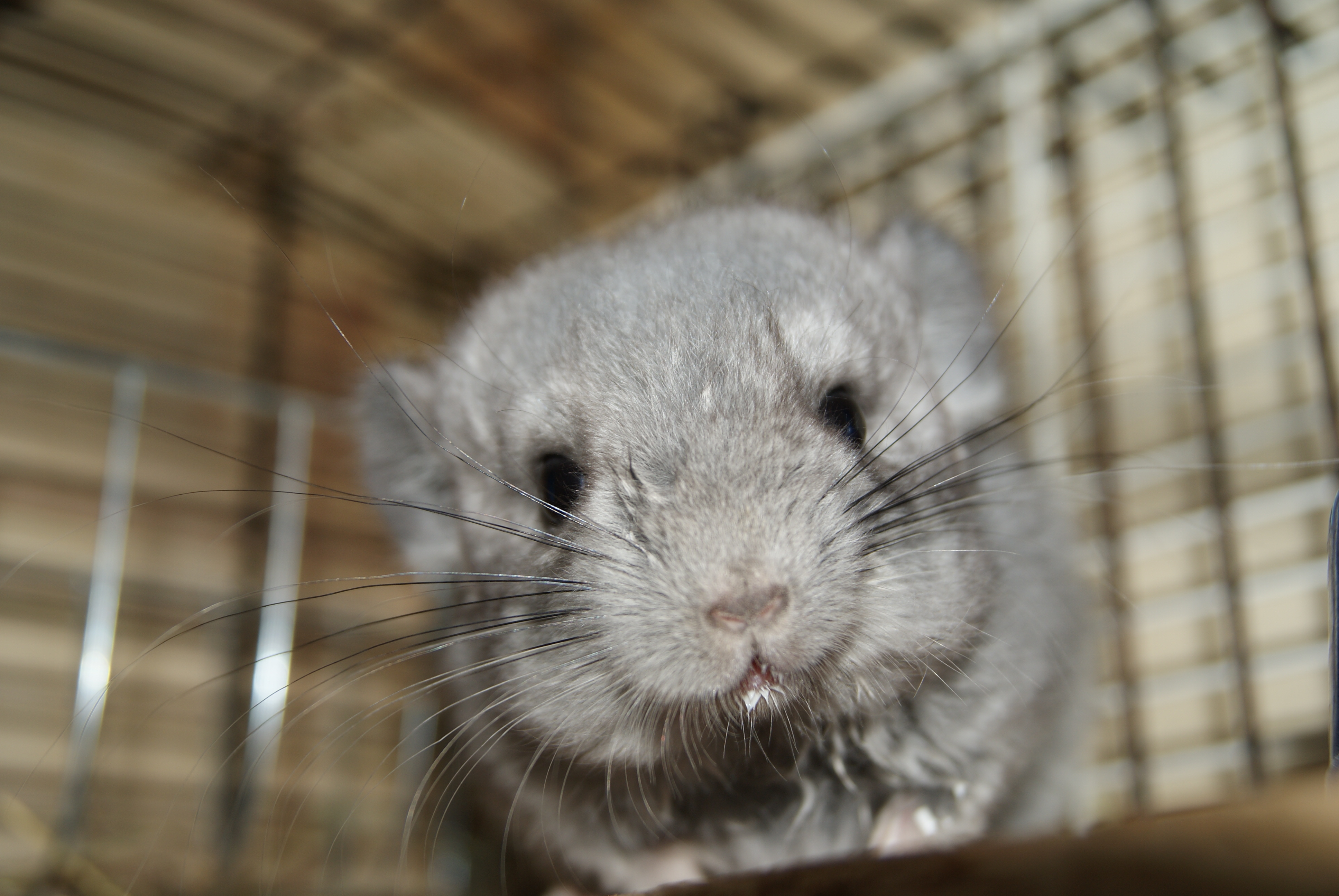 Lisa 2 monts